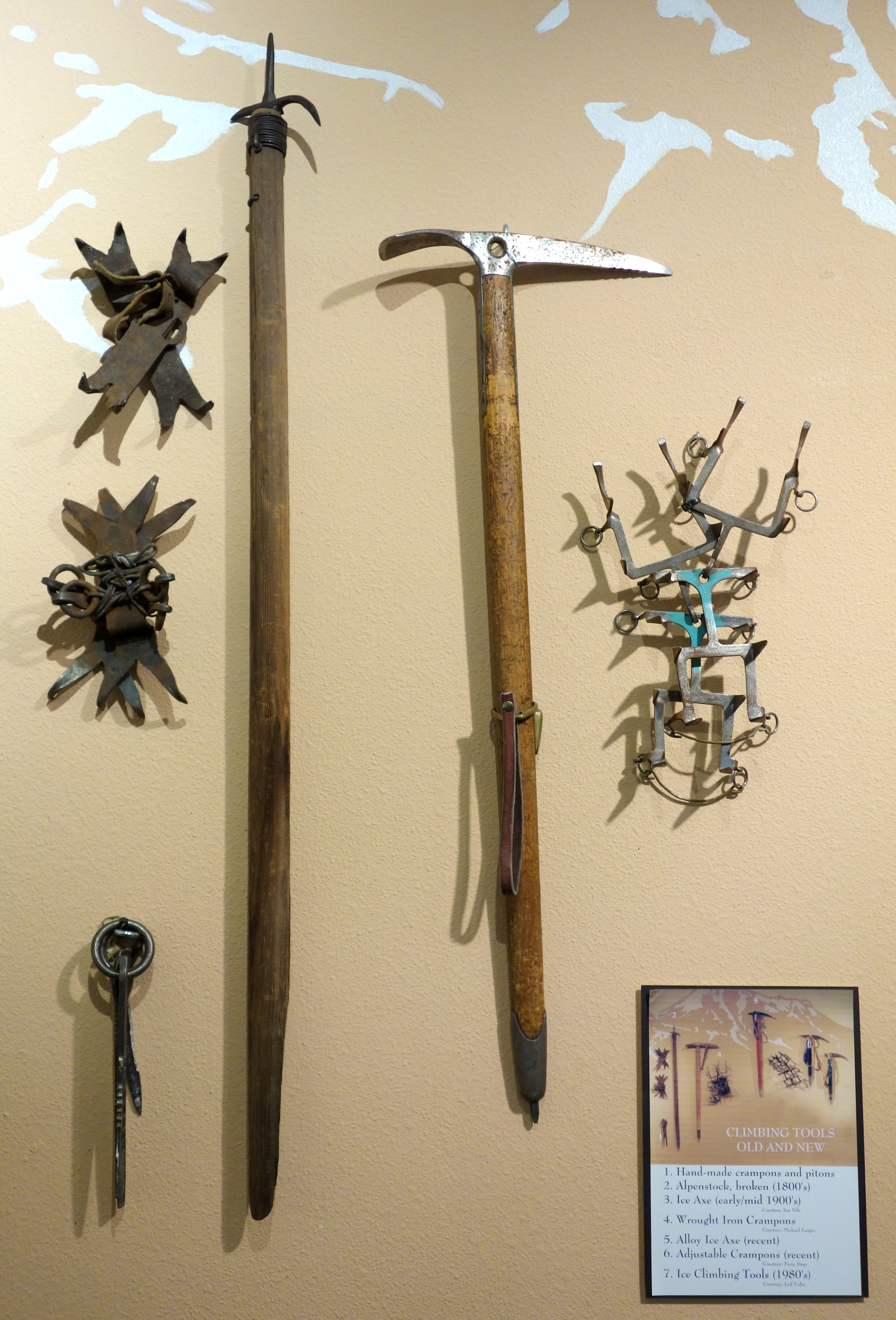 Exhibit in the Mount Shasta Sisson Museum, Mount Shasta City, California, USA.